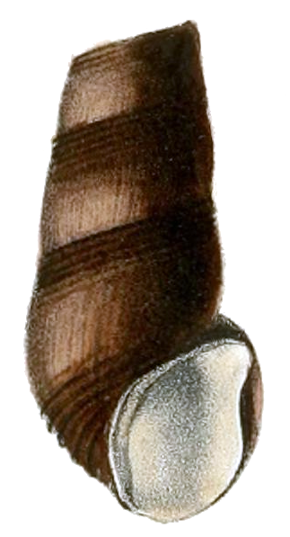 Drawing of apertural view of a shell (without some of top whorls) of Madagasikara madagascariensis, synonym: Pirena debeauxiana Crosse, 1862.